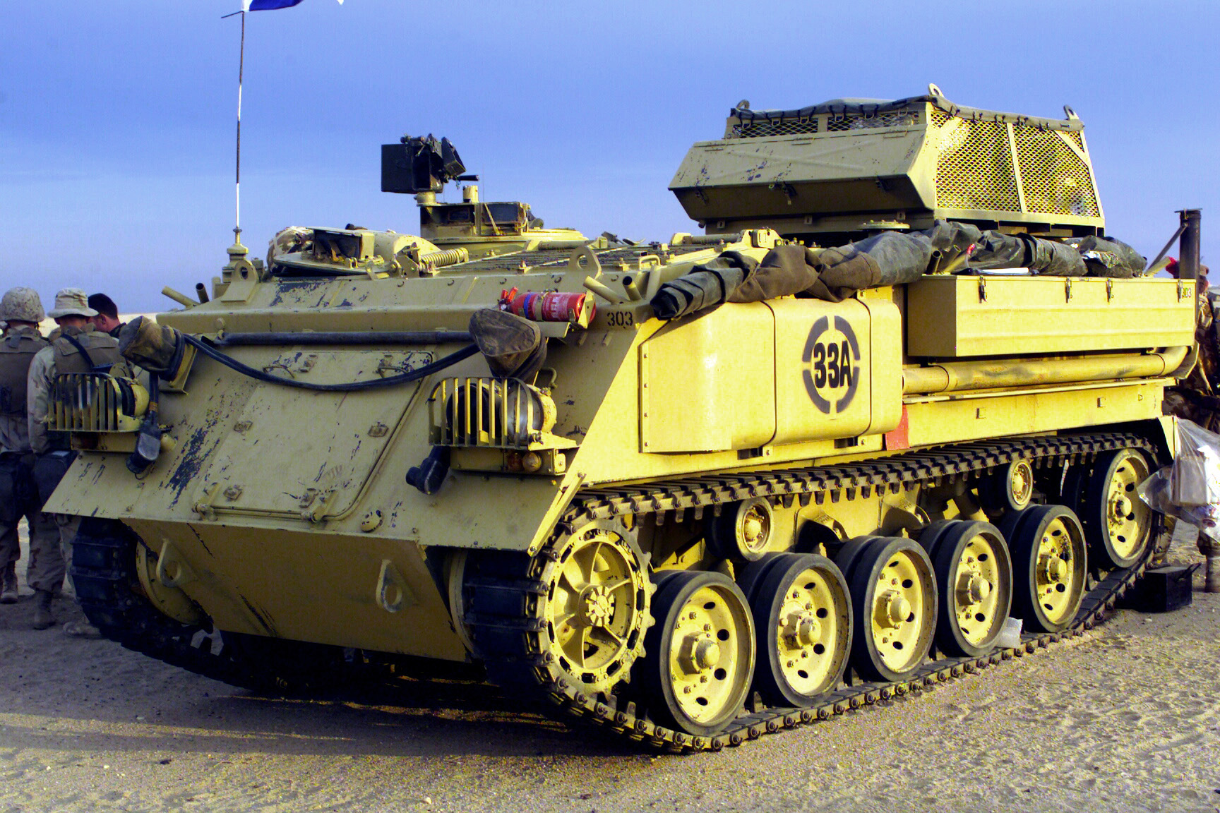 Caption: "A British FV432 Armored Personnel Carrier (APC) visits Camp Coyote during Operation ENDURING FREEDOM. Camera Operator: SGT PAUL L. ANSTINE II, USMC Date Shot: 3 Mar 2003"